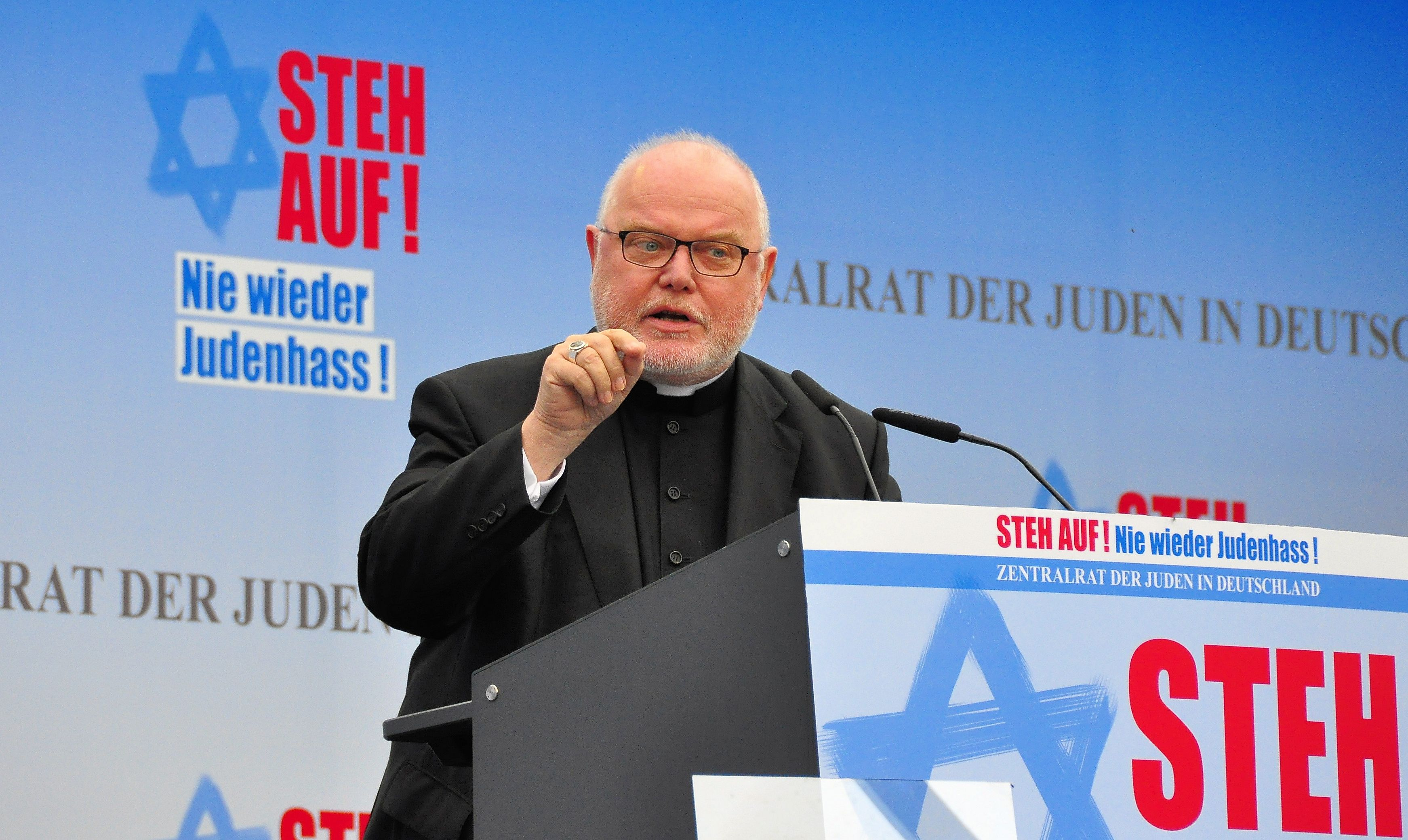 Cardinal Reinhard Marx, Catholic Archbishop of Munich-Freising, addressing a rally against anti-Semitism in Berlin, Berlin,14 September 2014